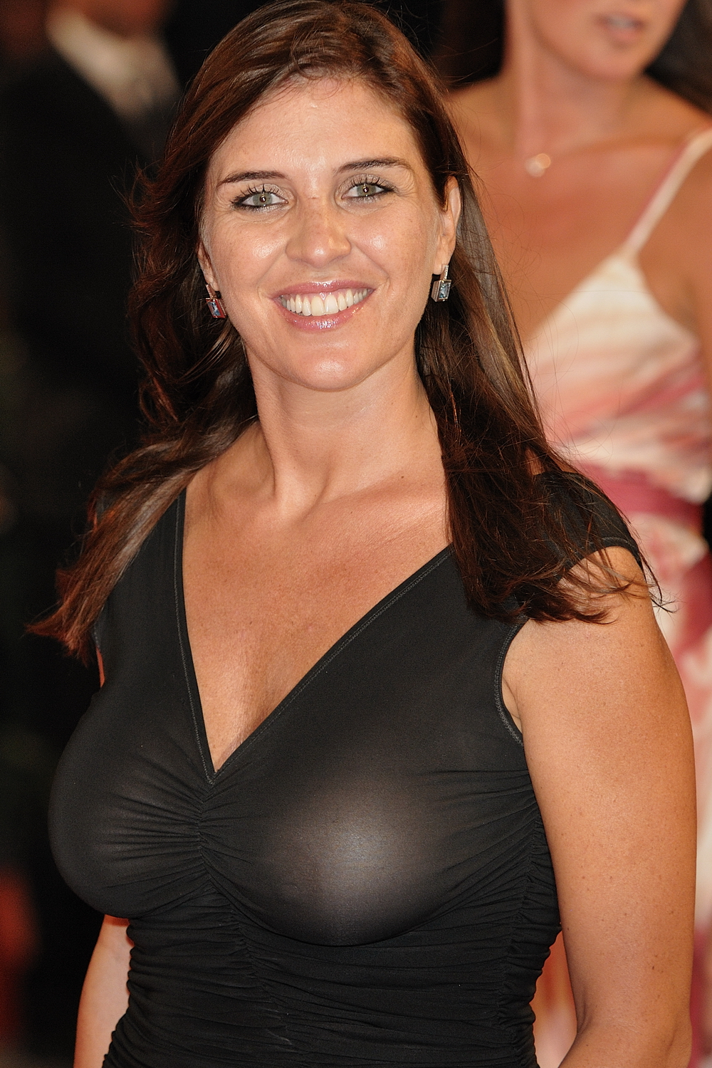 Gisella Marengo at the The Man Who Stares At Goats Premiere at the 66th Venice Film Festival.